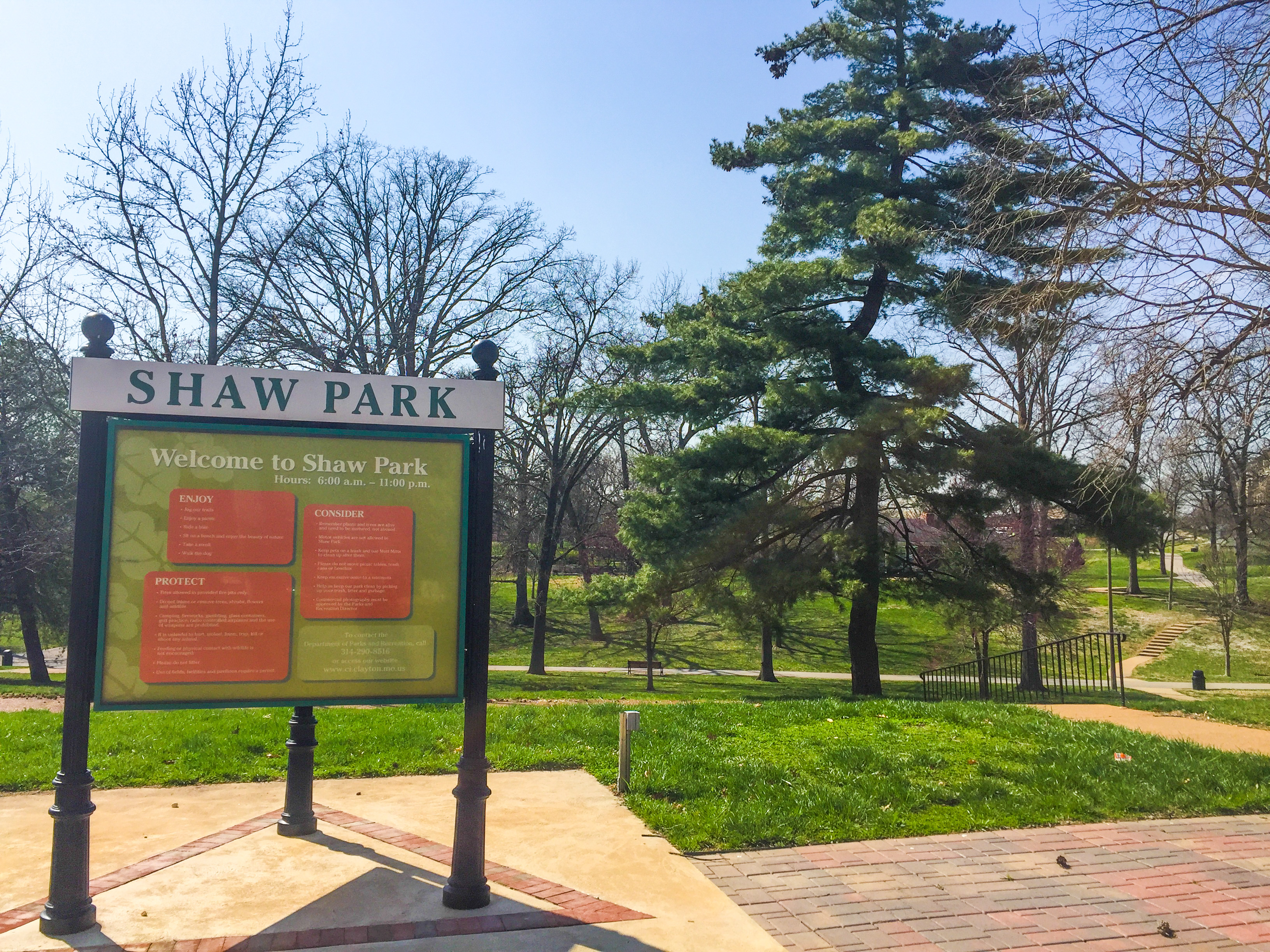 Entrance sign, Shaw Park, Clayton